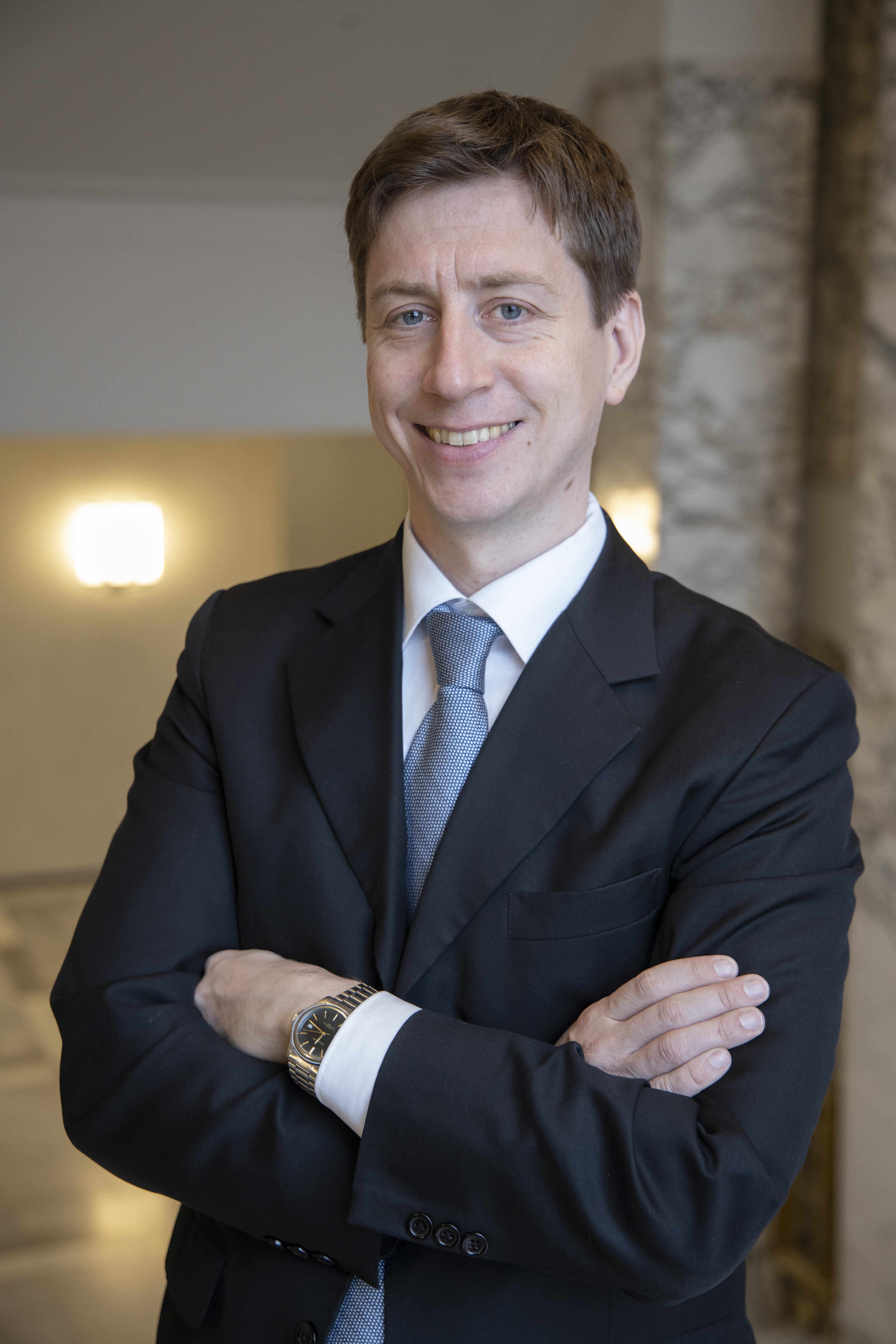 3.5.2019 Helsinki, Eduskunta - Sakari Puisto. kuva Matti Matikainen